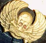 Harley Davidson belt buckle worn by an unidentified person found in 1983 in San Bernardino County, CA.